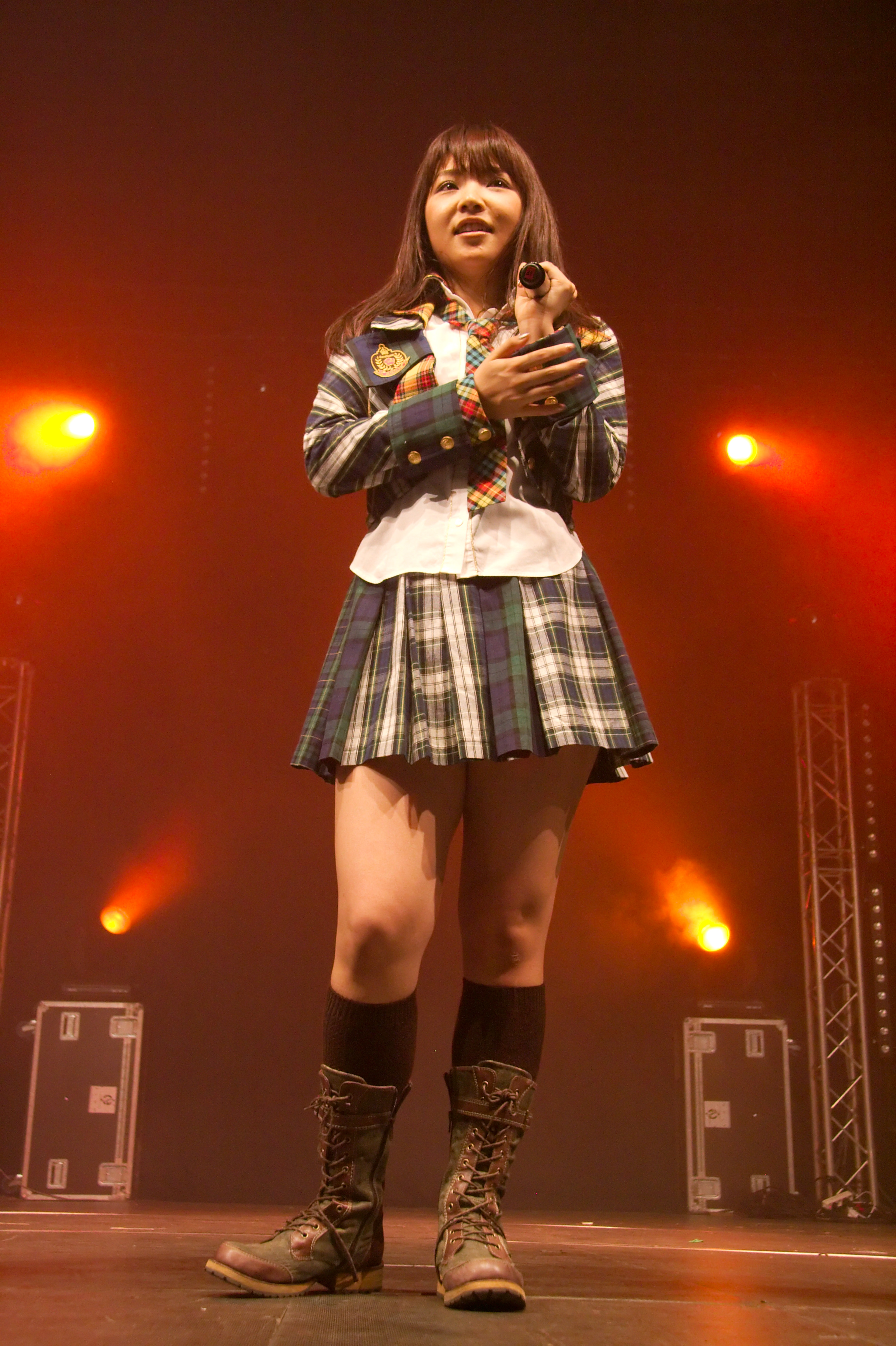 AKB48 live at Japan Expo 2009 (Paris, France).